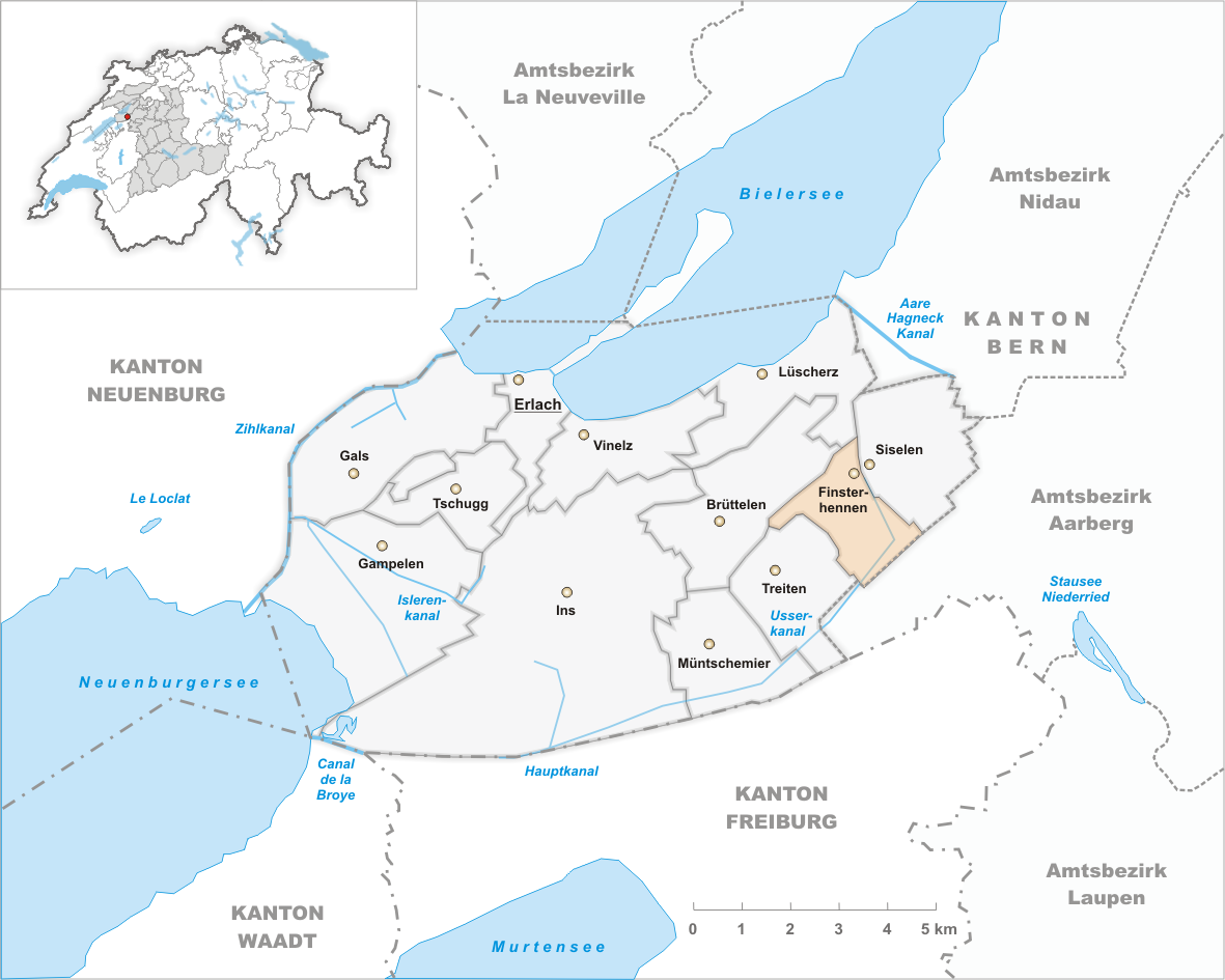 Municipality Finsterhennen